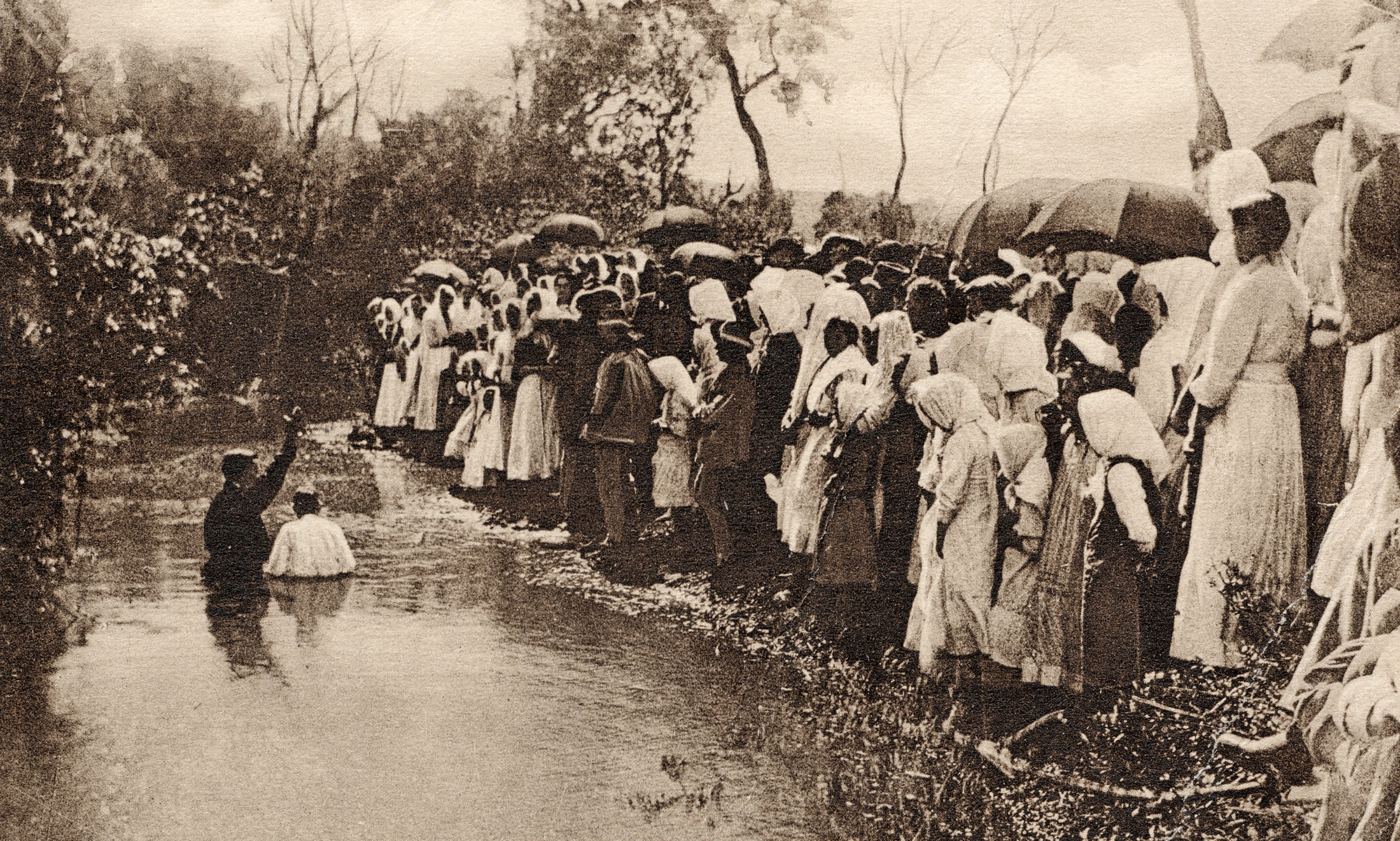 Missionary Erik Jansson in Guarany, Brazil.